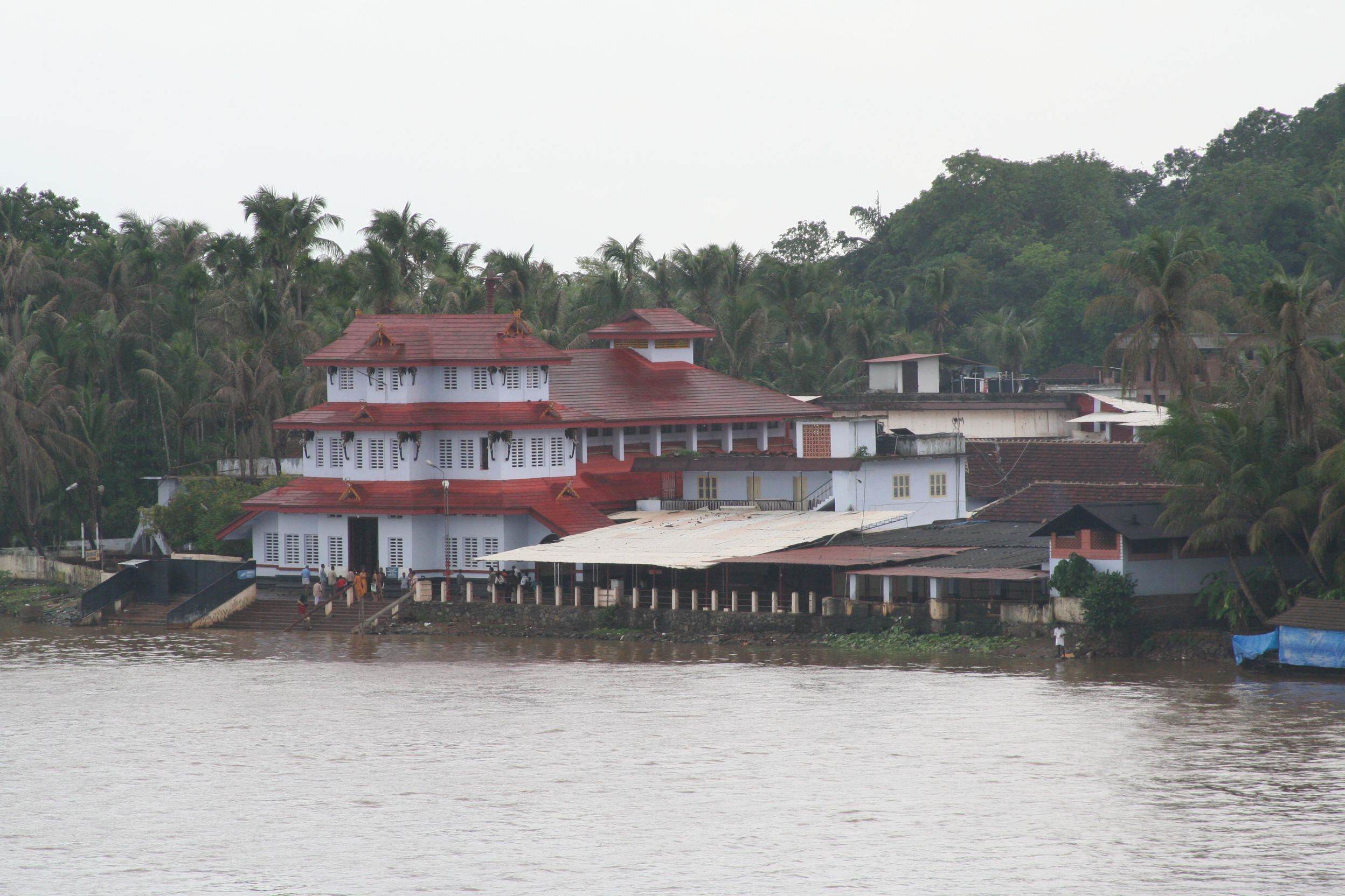 Muthappan Temple on the banks of Valapattanam river. RO Nambiar Edited by RN